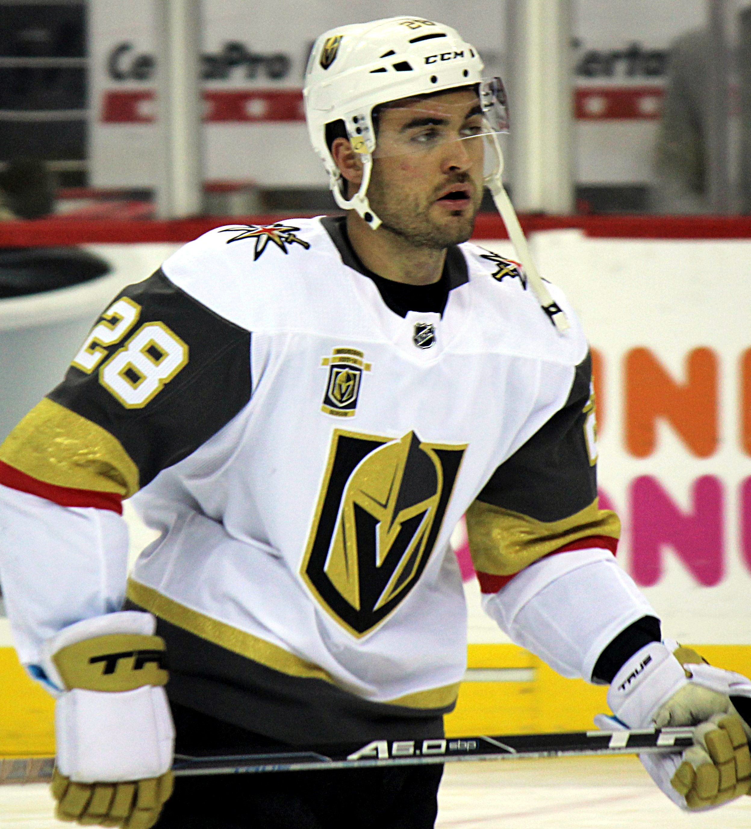 Vegas Golden Knights forward William Carrier during a game against the Washington Capitals, February 4, 2018, at Capital One Arena in Washington, D.C.